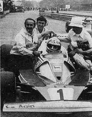 Niki Lauda at the end of the 1976 Italian Grand Prix